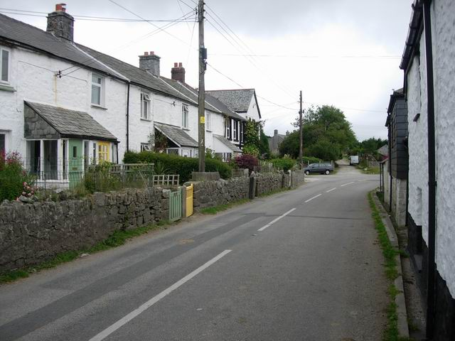 Minions. Some of the cottages in Minions.